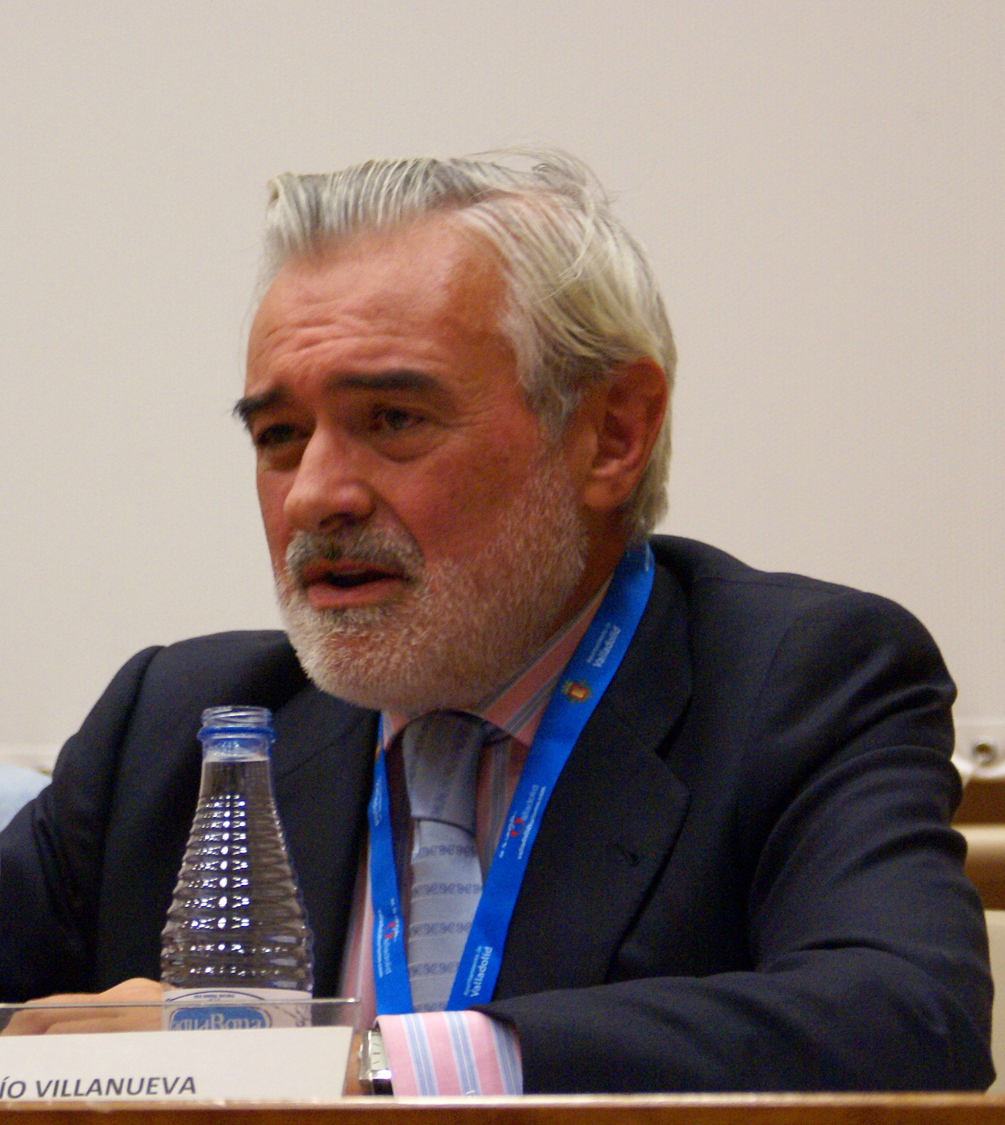 Darío Villanueva, Spanish linguist.